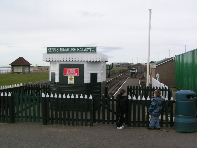 Kerrs Miniature Railway